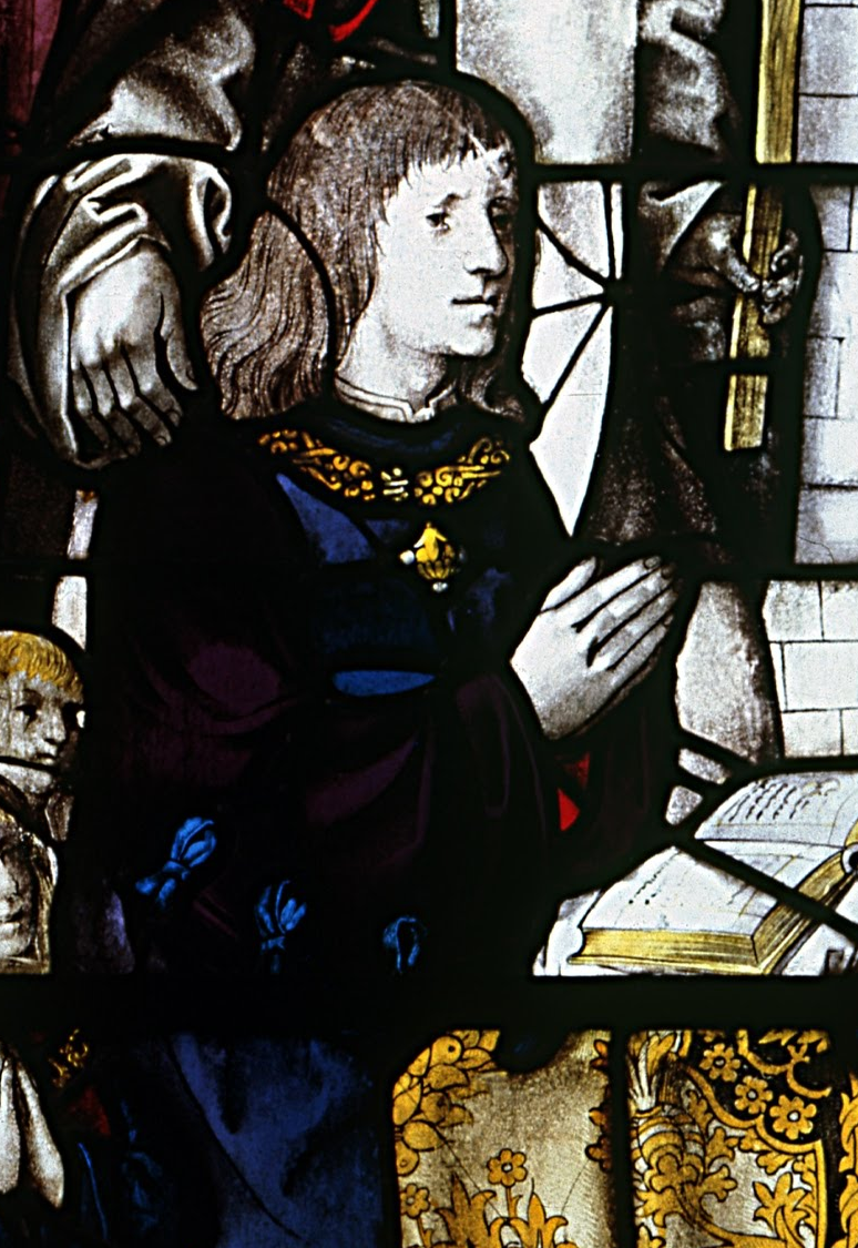 Stained-glass window in the High Chapel of the Church of Saint Mary of Victory (Batalha Monastery, Leiria, Portugal), possibly attributed to Francisco Henriques, c. 1514-1518. It depicts King Manuel I of Portugal in prayer, with his sons (in the foreground, kneels Prince John -- future John III of Portugal). They are accompanied by Saint Dominic, standing, and holding a cross.